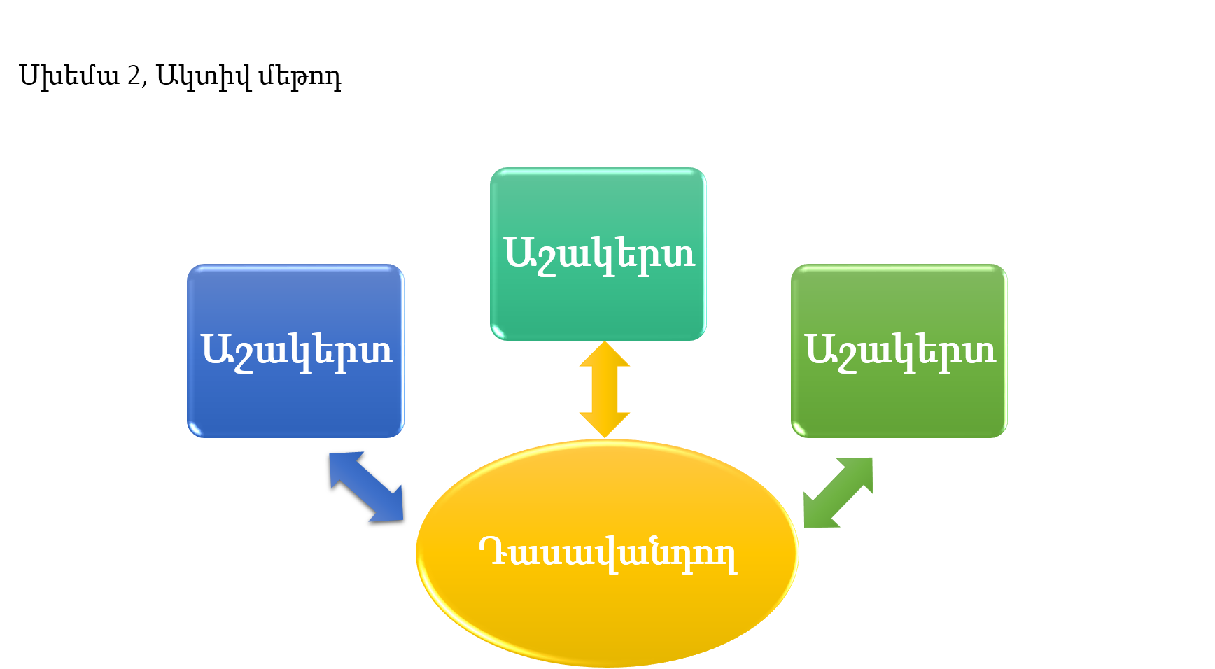 Активный метод обучения